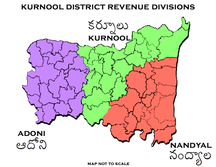 Revenue divisions map of Kurnool district